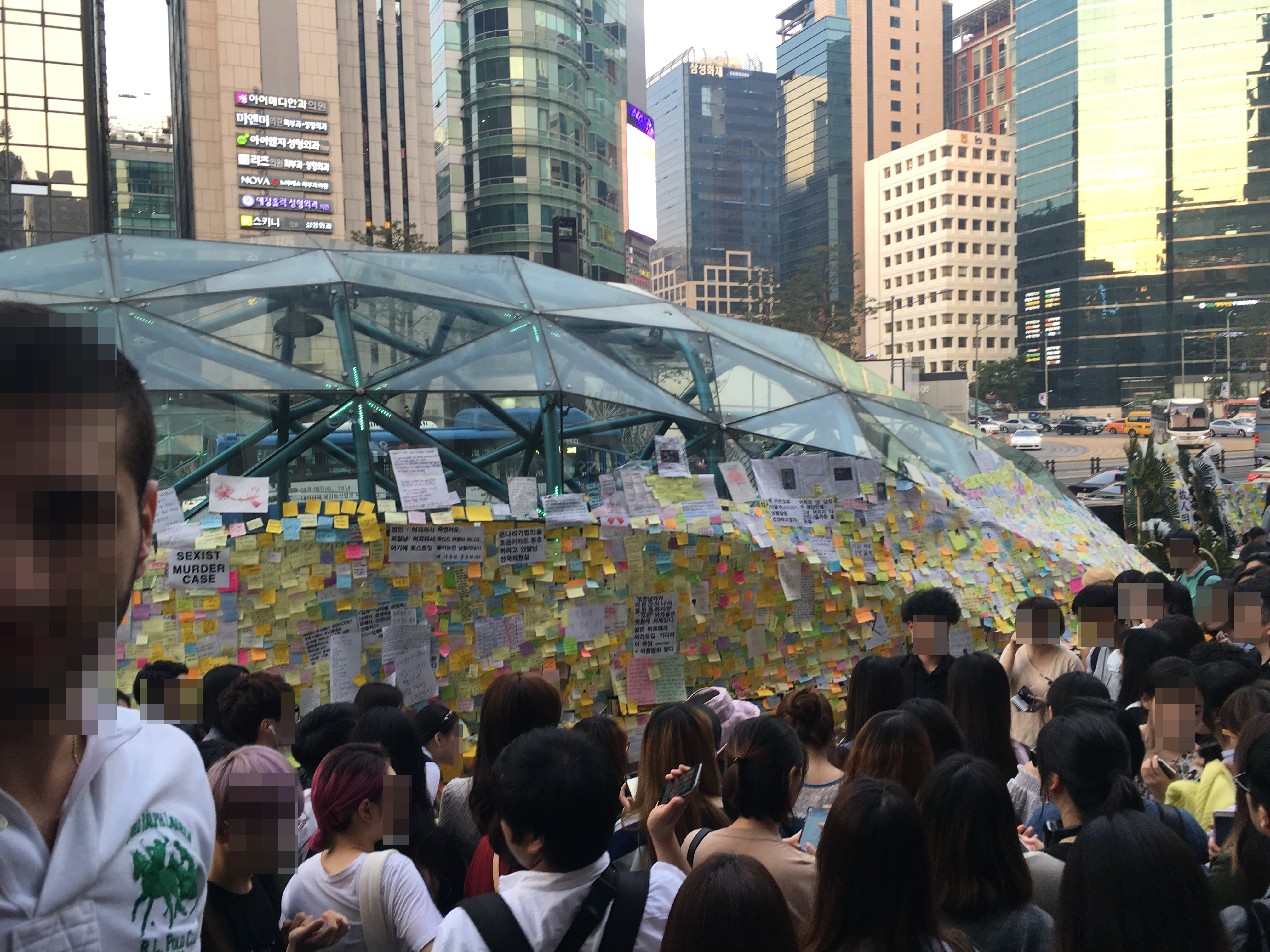 The memorial place in gate of exit 10 in Gangnam Station.